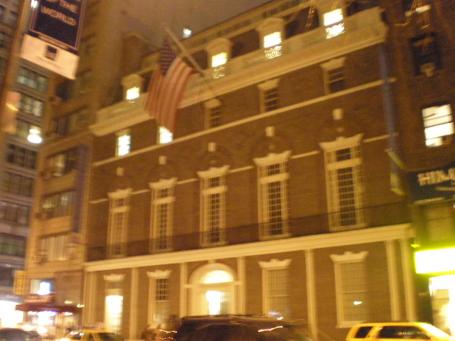 This photo is of Wikipedia Takes Manhattan location code 108, American Academy of Dramatic Arts.